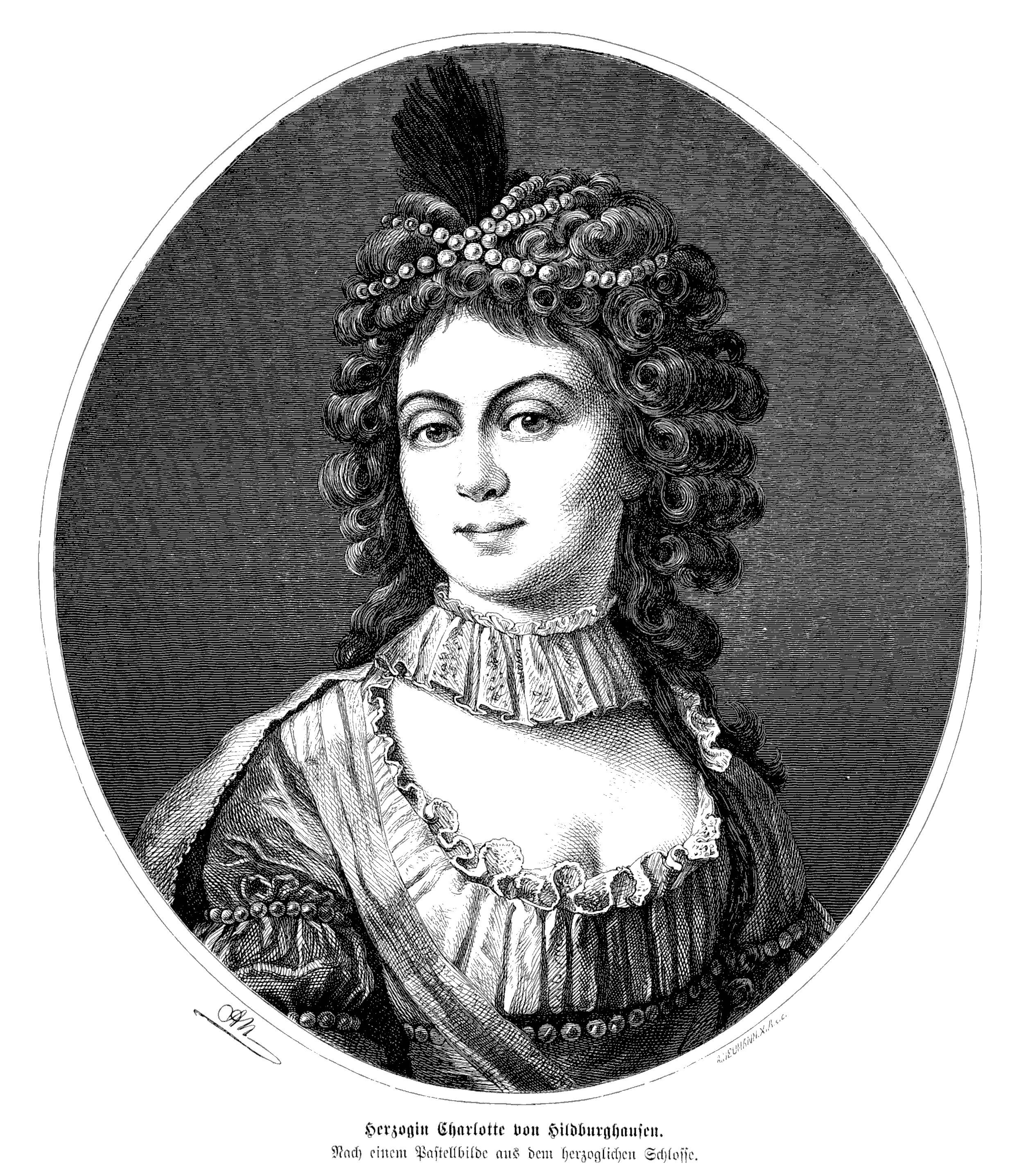 Image from page 454 of book Die Gartenlaube, 1874.